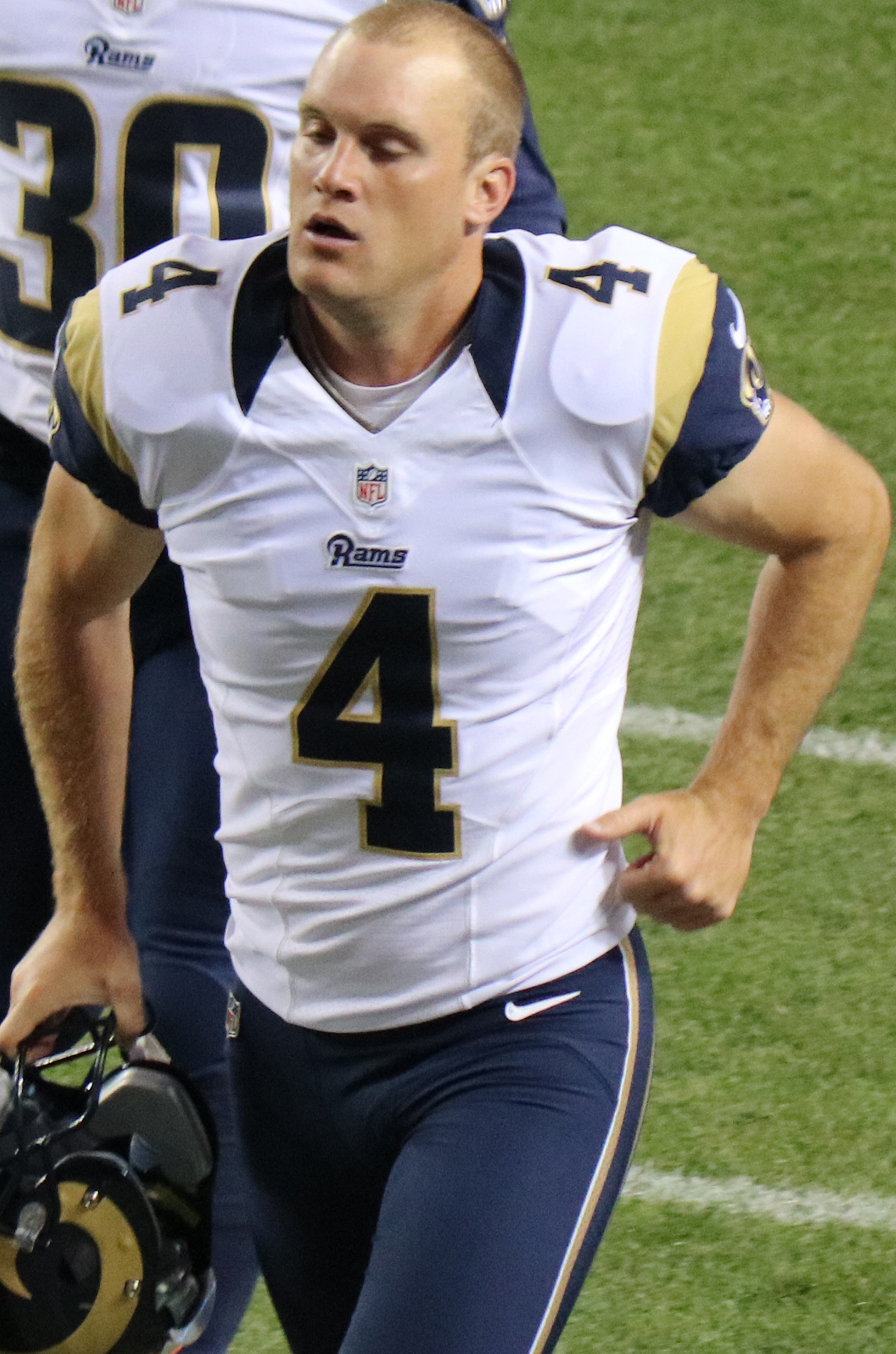 Greg Zuerlein, a player on the National Football League.